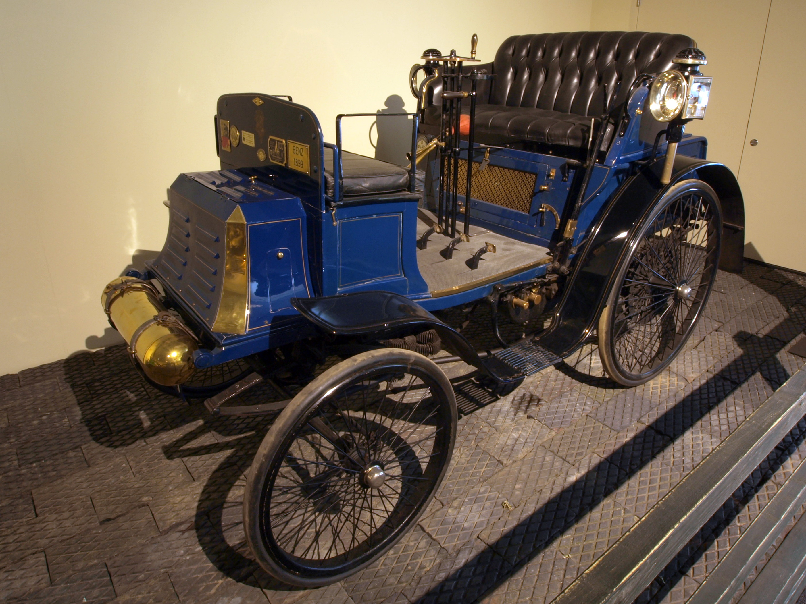 Photographed at the Louwman museum, The Netherlands.